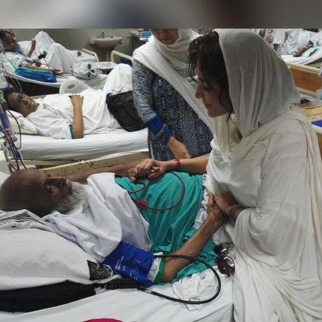 Ref: Wikipedia Ticket#2018102010004629 Alfred Neumann from . Under this userid, I am uploading on behalf of Shahnaz Minallah, , who took this photo and got permission to upload to Wikipedia from Alfred Neumann who said, "If you have NOT yet uploaded, please continue to upload the file(s) and let us know when done." Will email him as well.